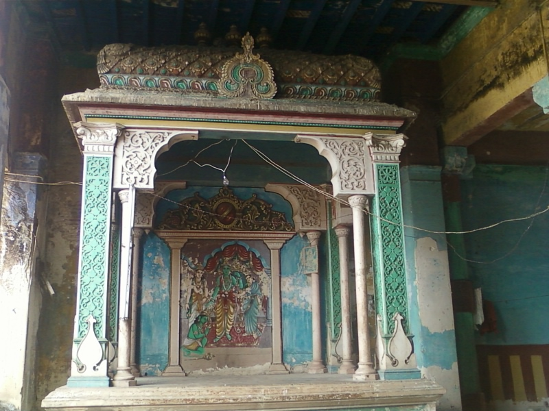 vasantha mandabam SRI THENKALAI SRINIVASA PERUMAL KOIL